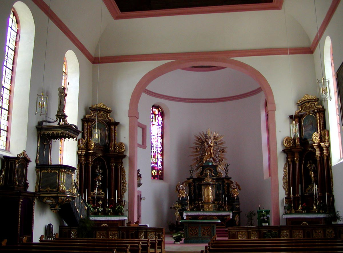 Photo of interior of St Joseph's church, Simmern, Rhineland-Palatinate, Germany